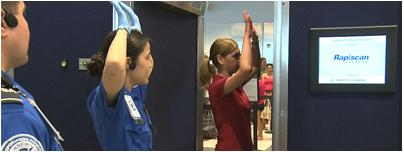 Rapiscan TSA How it works